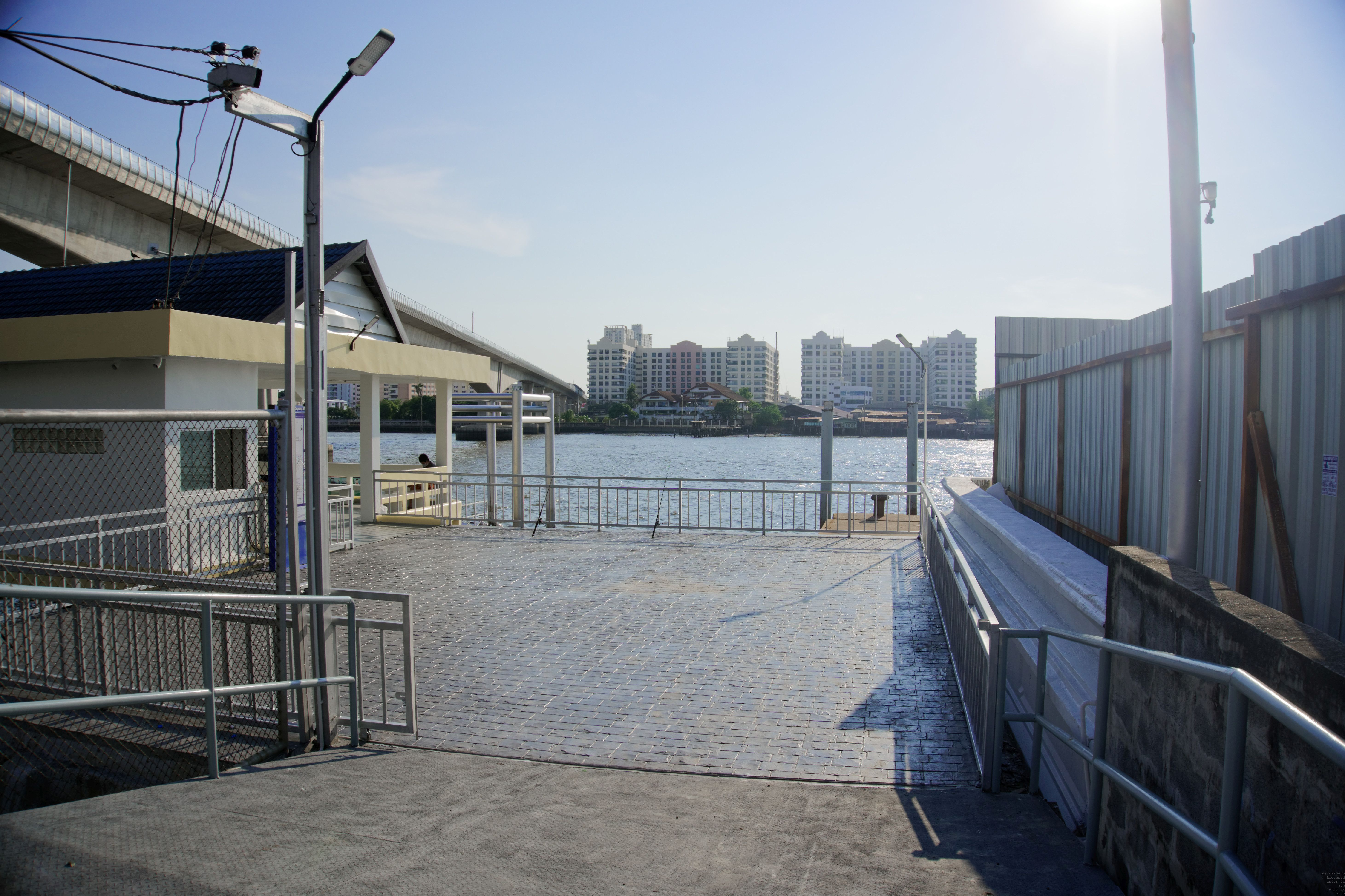 MRT Bang Pho - Bang Pho pier renovated - overview